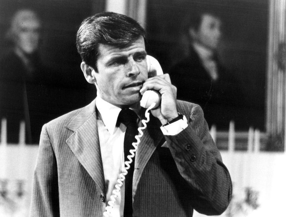 William Devane in The Missiles of October (1974)